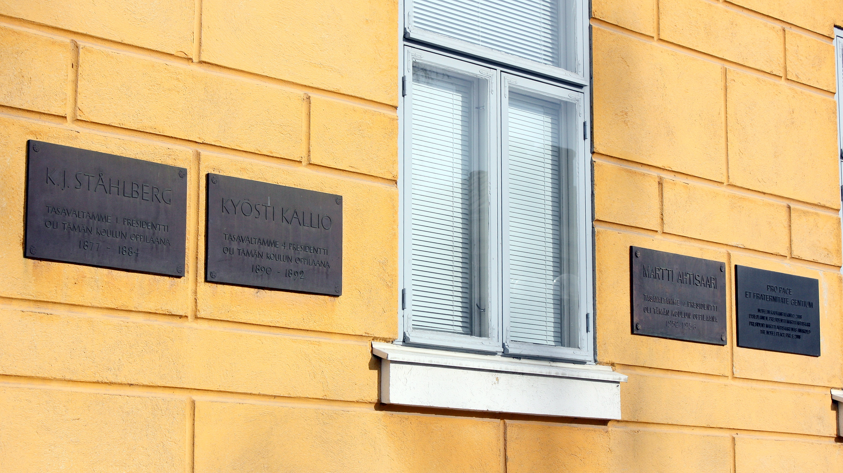 On the wall of Oulu lyceum there are three plaques for the presidents that have attended Oulu lyceum: K.J.Ståhlberg, Kyösti Kallio and Martti Ahtisaari. And another plaque for Nobel Peace Prize awarded to Martti Ahtisaari.